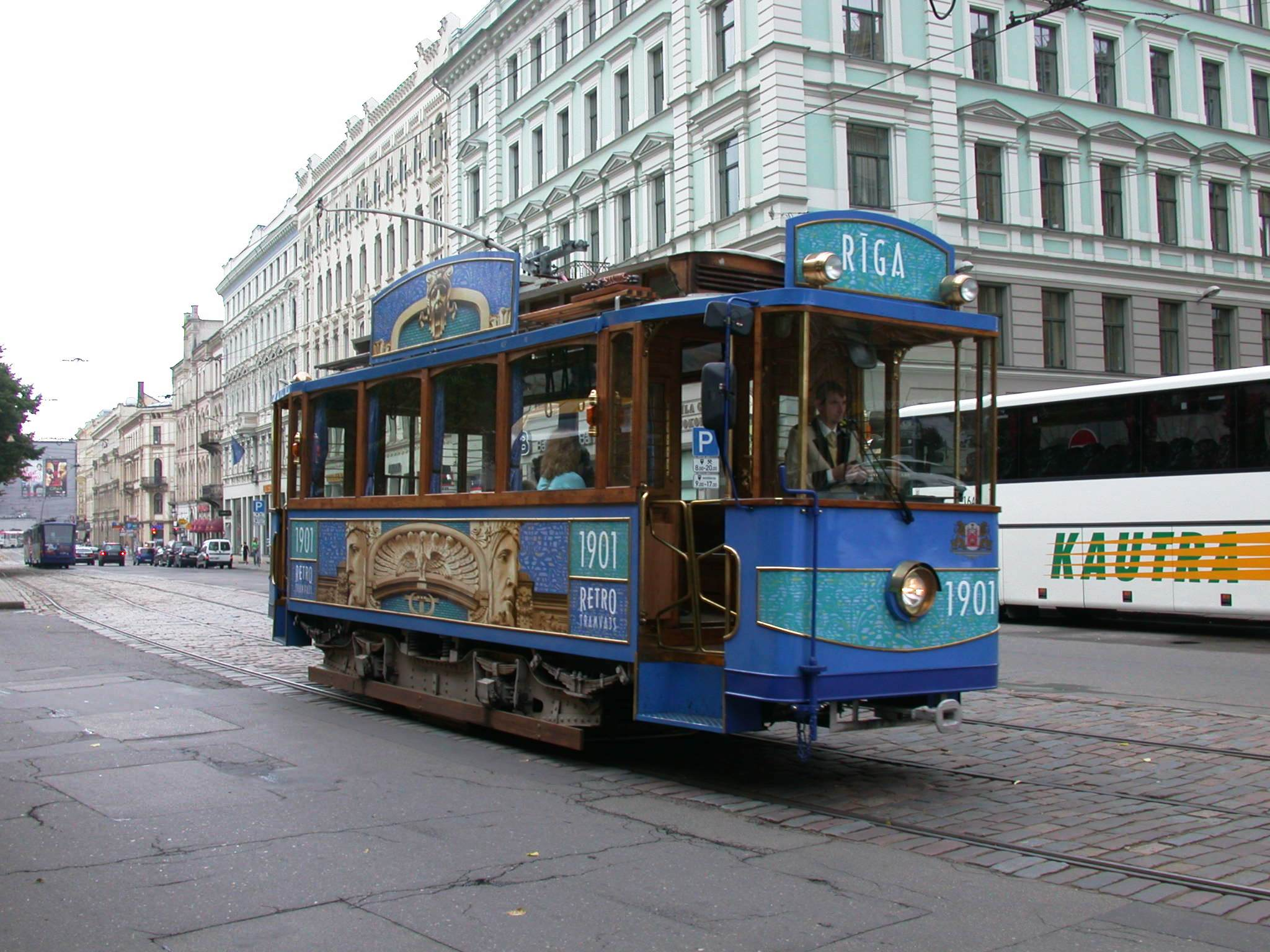 Tram, Old tram outside the Latvian national opera, Riga (city)